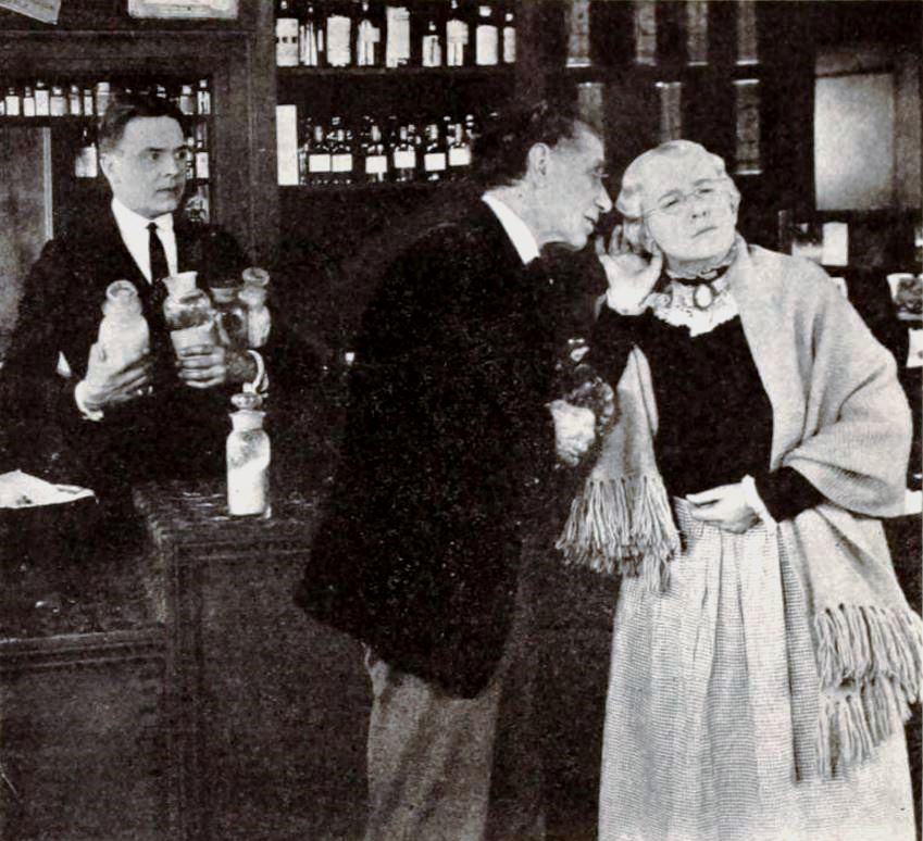 Still from the American comedy film One a Minute (1921) with Douglas MacLean, an unidentified actor, and Frances Raymond, on page 69 of the June 18, 1921 Exhibitors Herald.